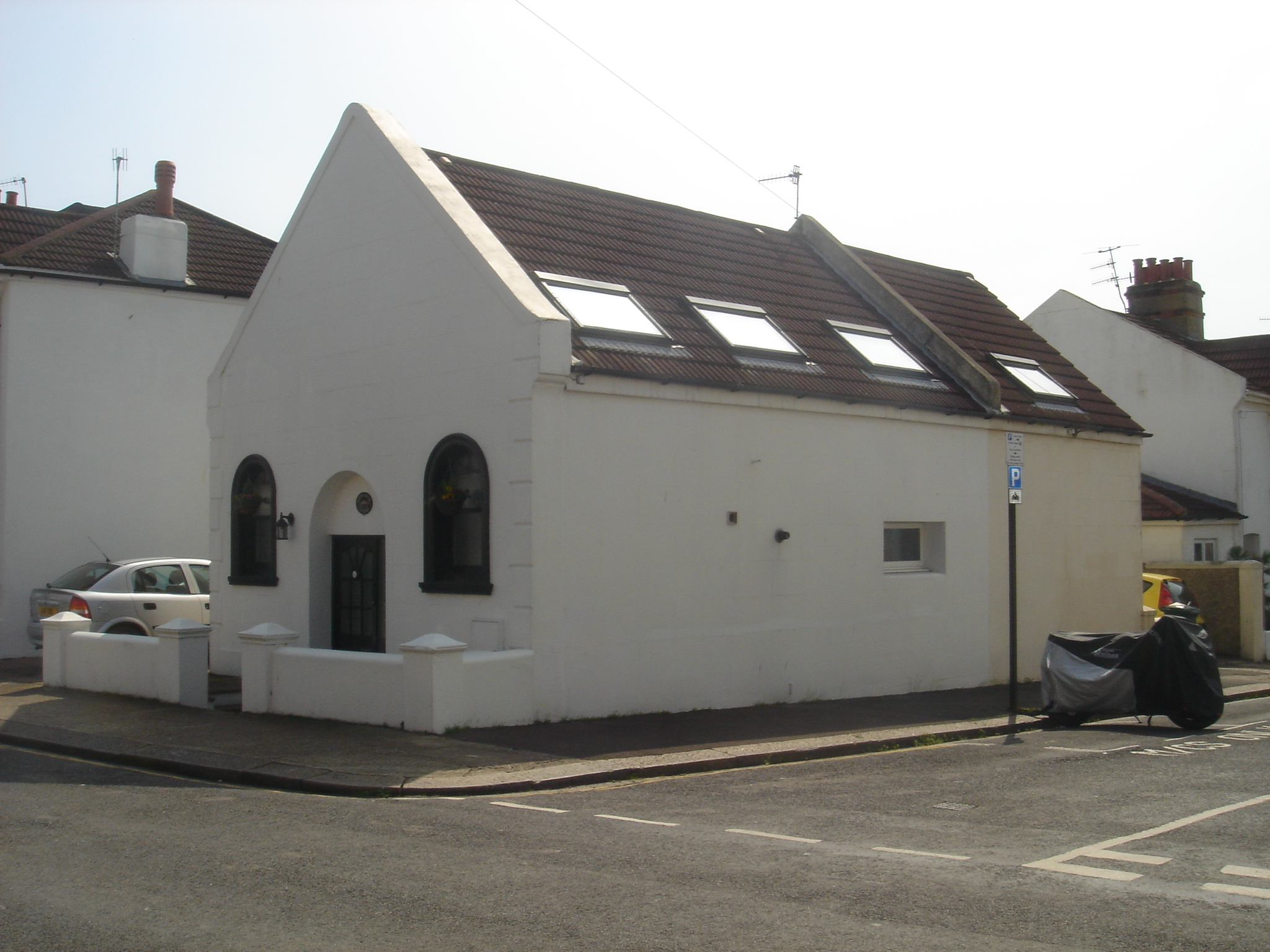 Former chapel of the Society of Dependents ("Cokelers"), Linton Road, Hove, City of Brighton and Hove, England. Now a private house.